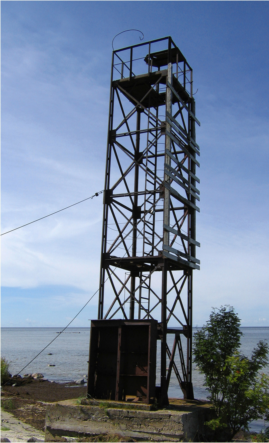 Kuunsi daymark